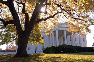 White House North Lawn in autumn.